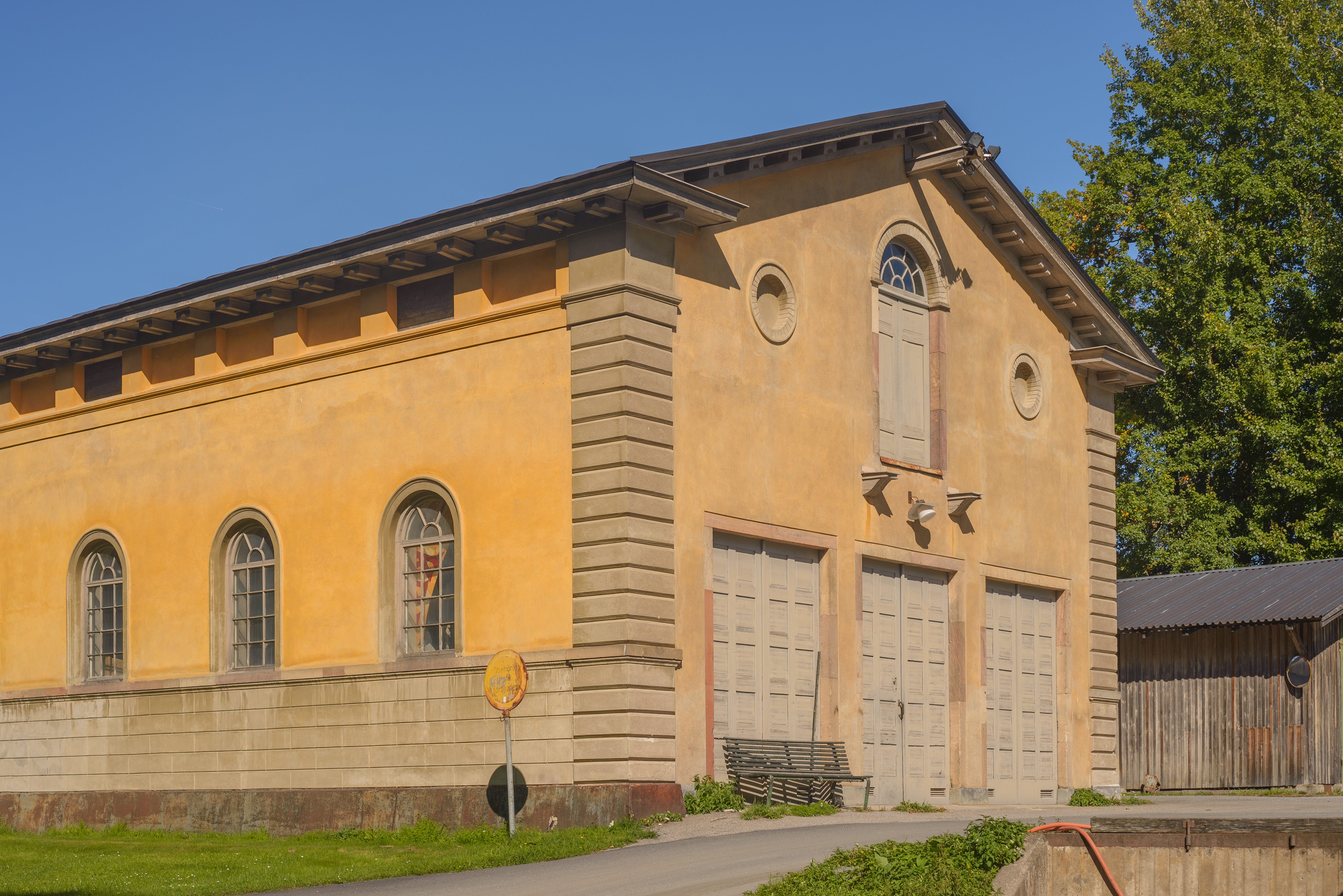 Rosendal stable, Djurgården, Stockholm. Built in the 1820s. Architect: Fredrik Blom.